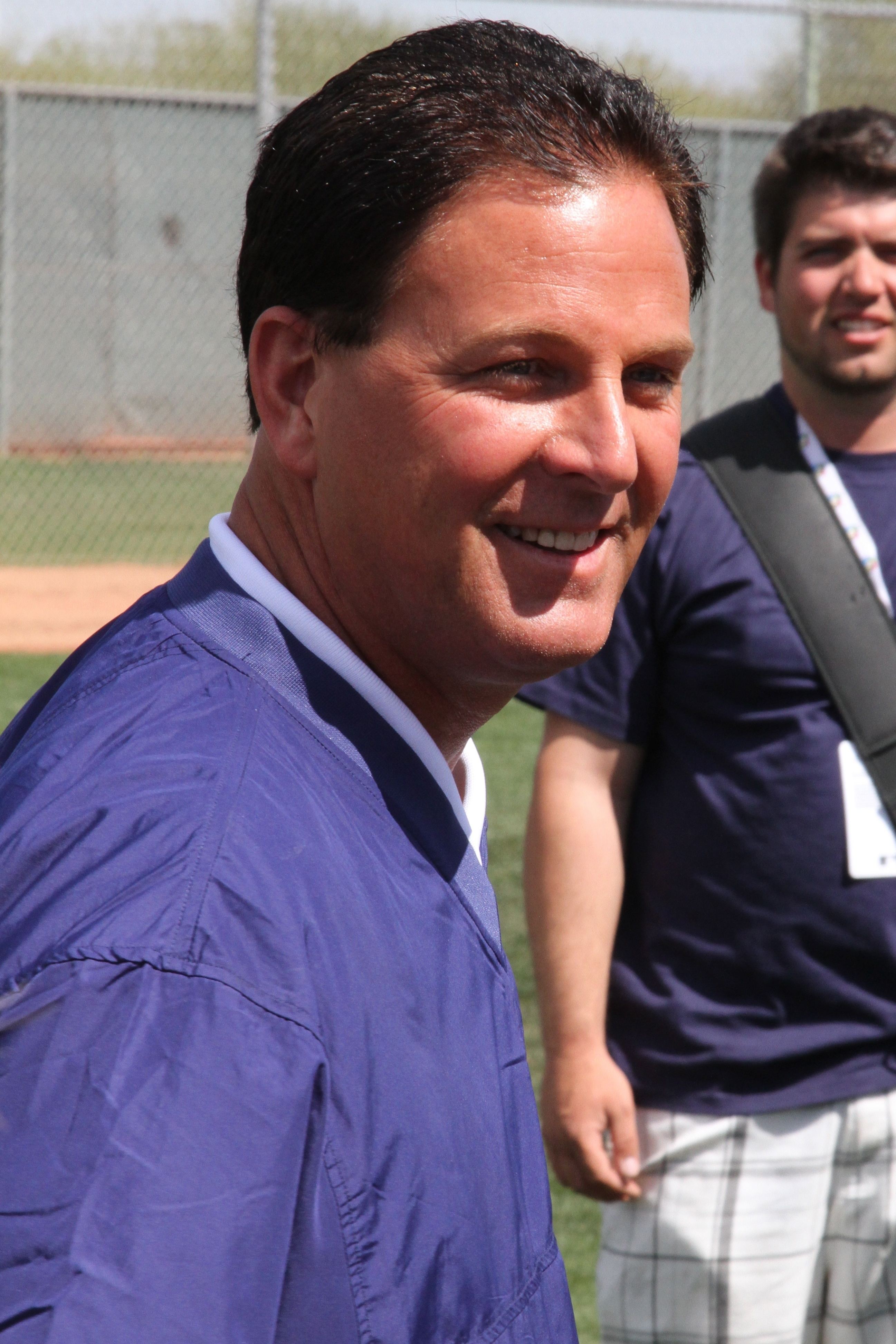 Former pitcher, 3-time All Star and announcer/analyst for MLB network. Has a 3.64 lifetime ERA with 158 career saves, played for the Brewers (1986-1992), Cubs (1993-94), Pirates (1995-1996), Blue Jays (1887-1999, 2001-2002), D-backs (1999-2000) and Phillies (2002-2003).